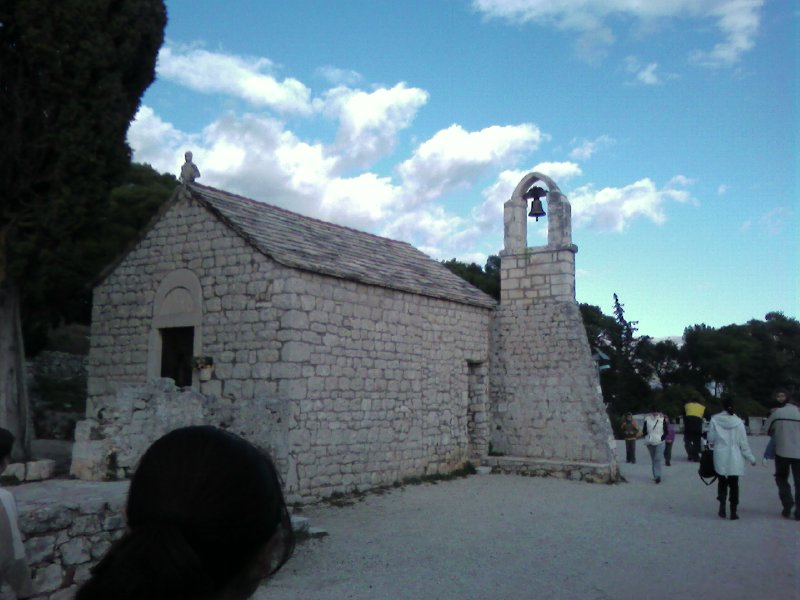 Picture of church St. Nicholas on Marjan, Split, Croatia